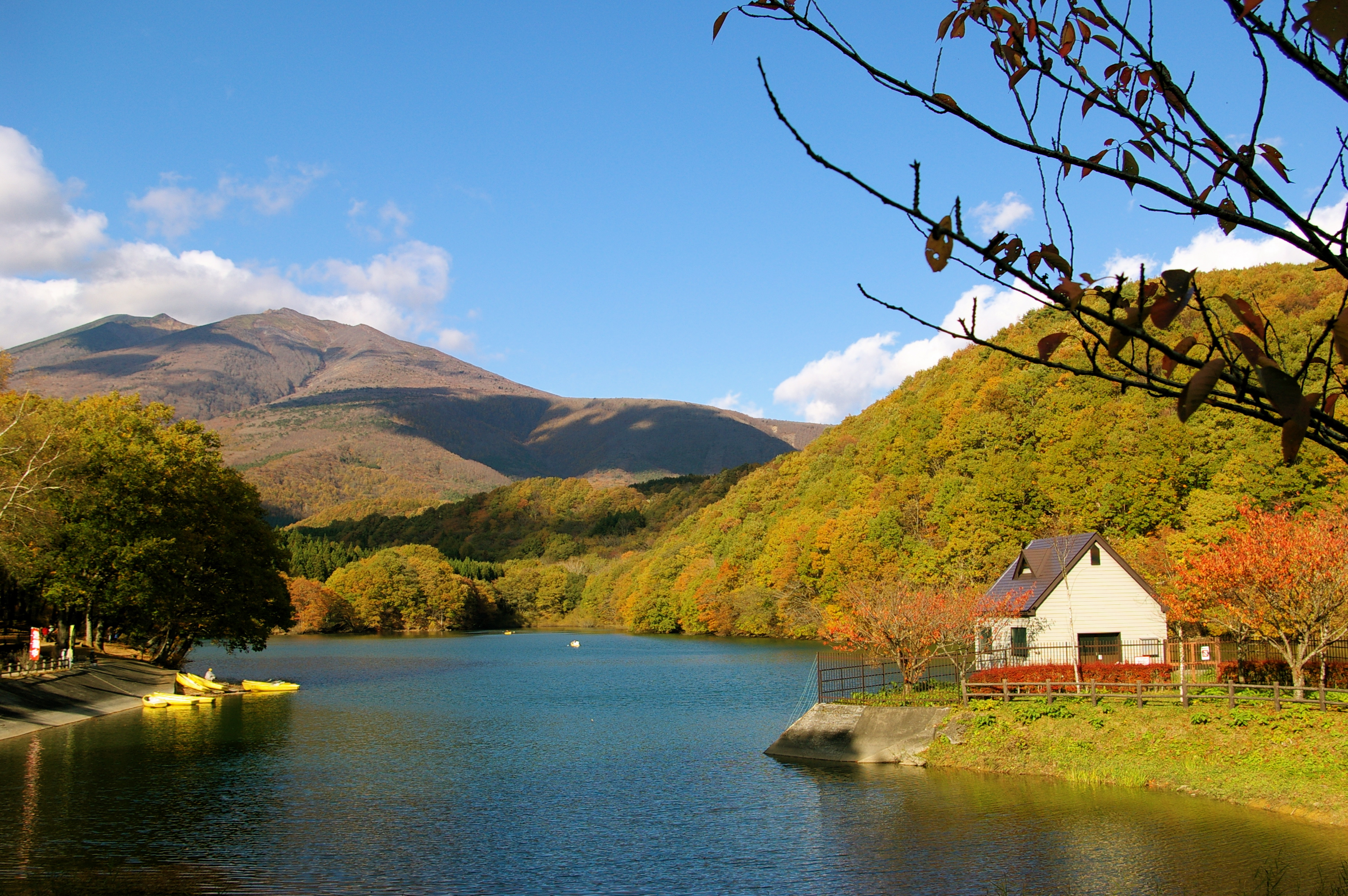 Lake Choro with Mount Fubo.